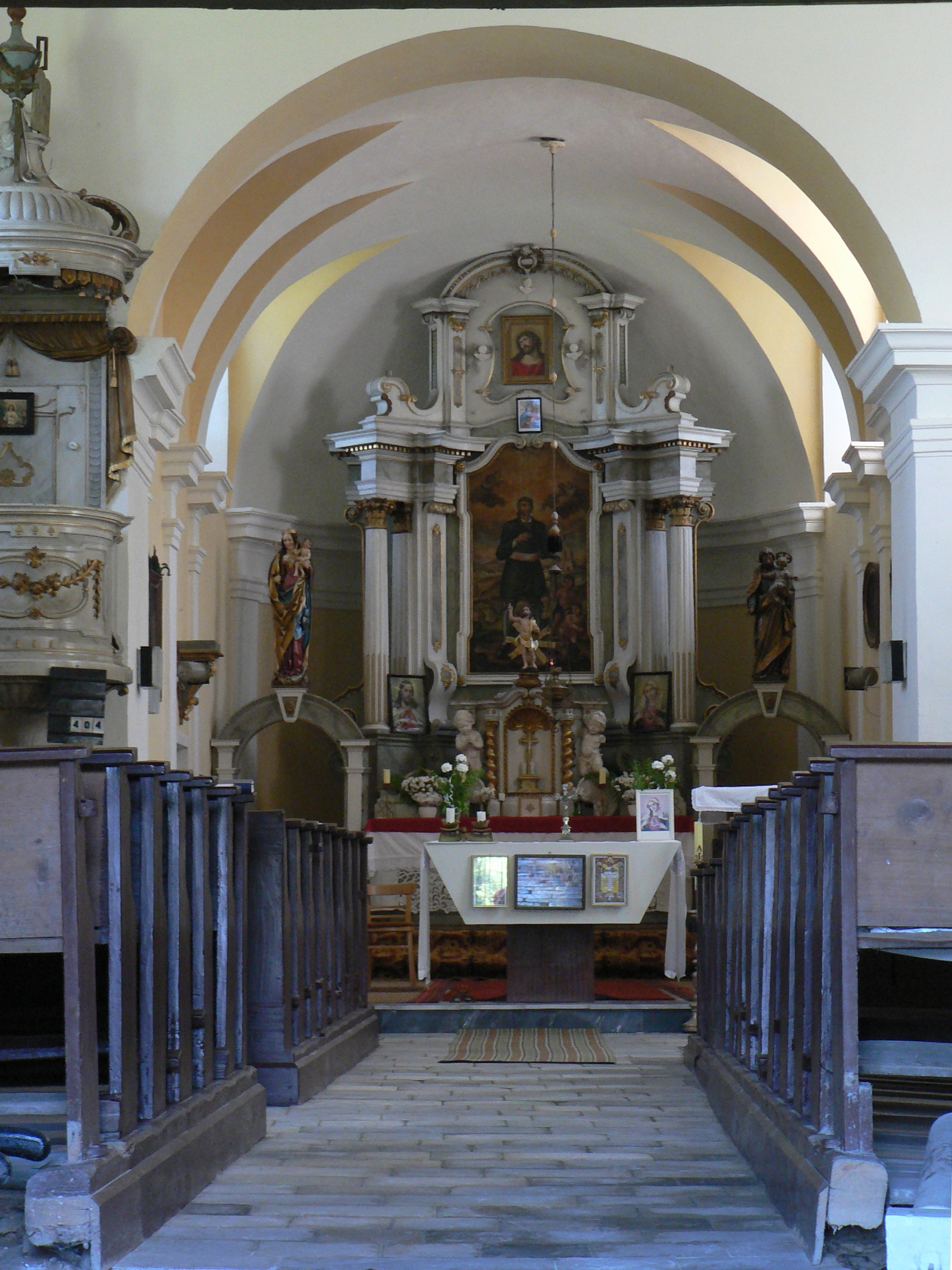 Church of Saint Isidore the Labourer in Nové Losiny, Šumperk District, Czech Republic